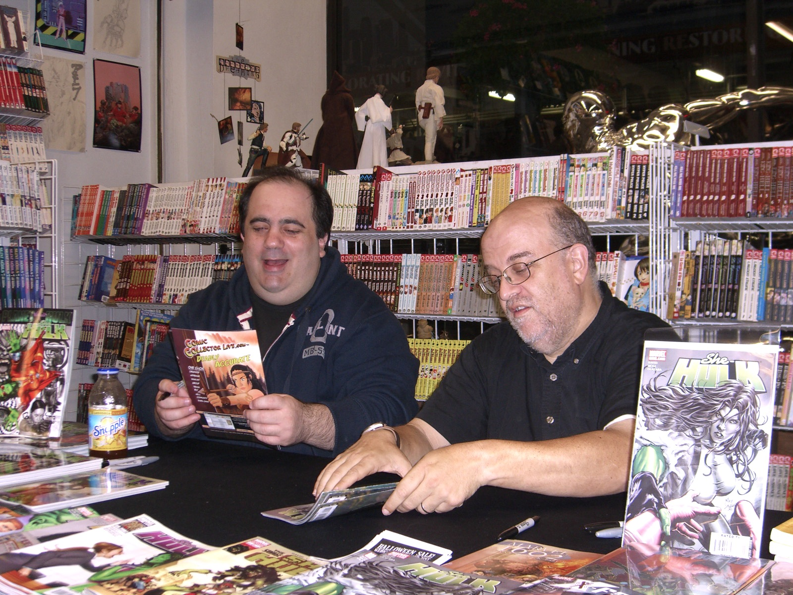 Comic book creators Peter David and Dan Slott at Jim Hanley's Universe in Manhattan, October 25, 2007.Photo by Luigi Novi. This photo may be used, modified and published for any purpose, only if a easily visible credit to the photographer is placed near the photo in each instance in which it is used. (See licensing information below.) Publication of this photo without this proper attribution constitute copyright infringement. For more information on my photos, you can contact me here.